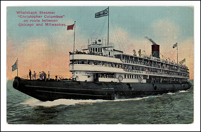 The S.S. Christopher Columbus was a whaleback excursion liner designed by Alexander McDougall and built in 1892-1893 in Superior, Wisconsin by American Steel Barge Company for service to ferry passengers to and from the World's Columbian Exposition, and later placed in general and excursion service to various ports around the Great Lakes. This image is of her while sailing. The red stack but white deck suggests the image was taken while owned by the Goodrich Transportation Company, and used in general excursion service, before 1909 when she got yellow decking.